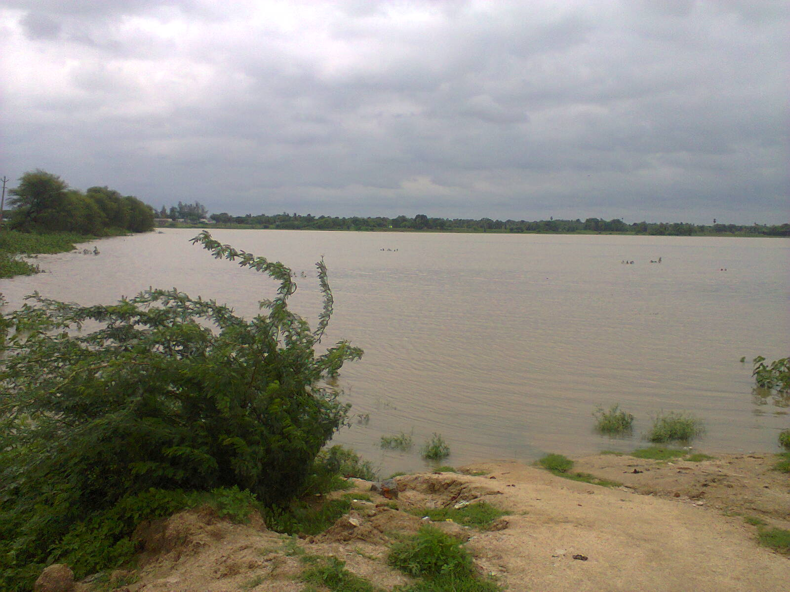 మోత్కూర్ చెరువు